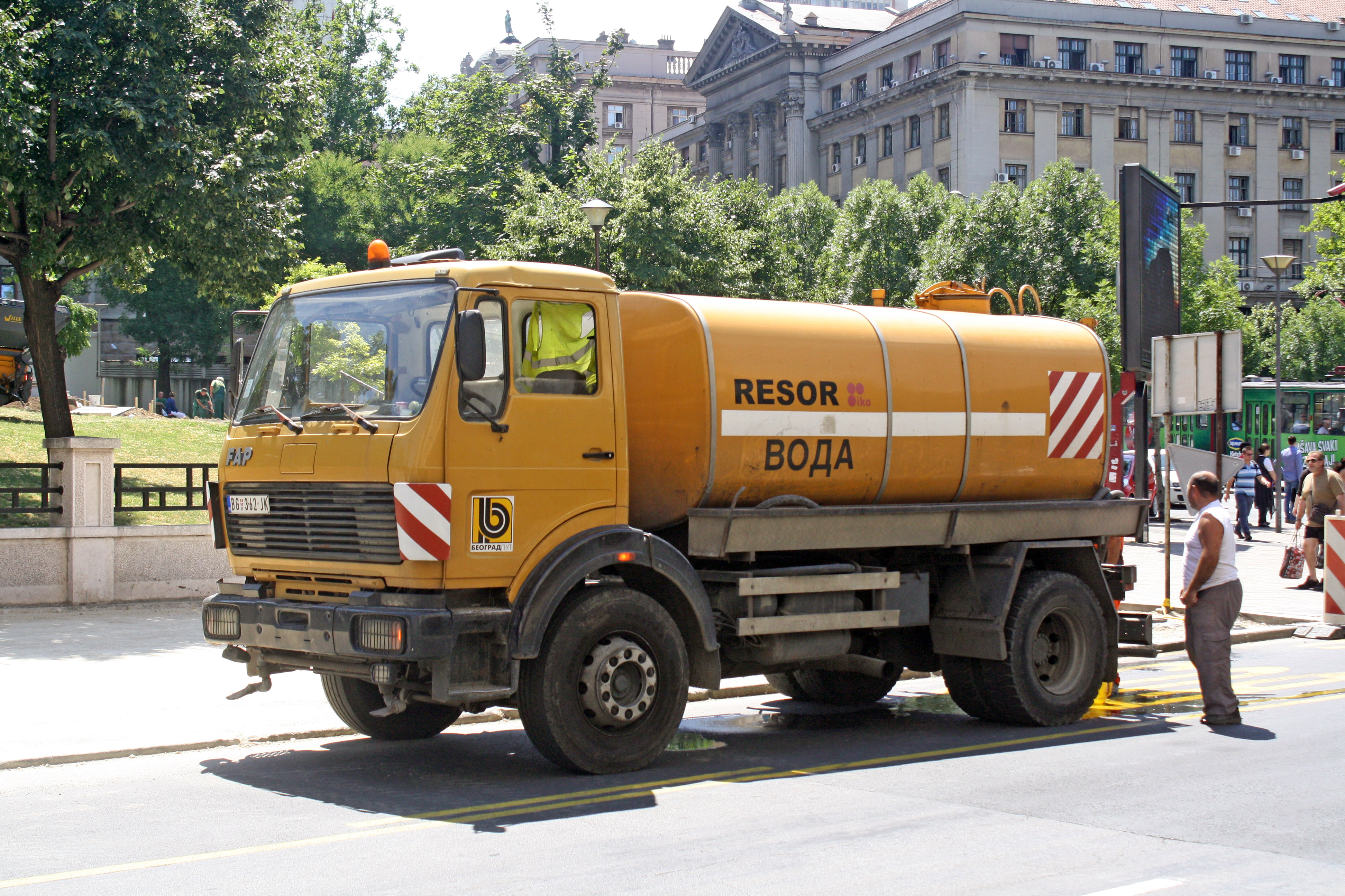 FAP 2022 water tank truck of JKP Beograd put public road company.